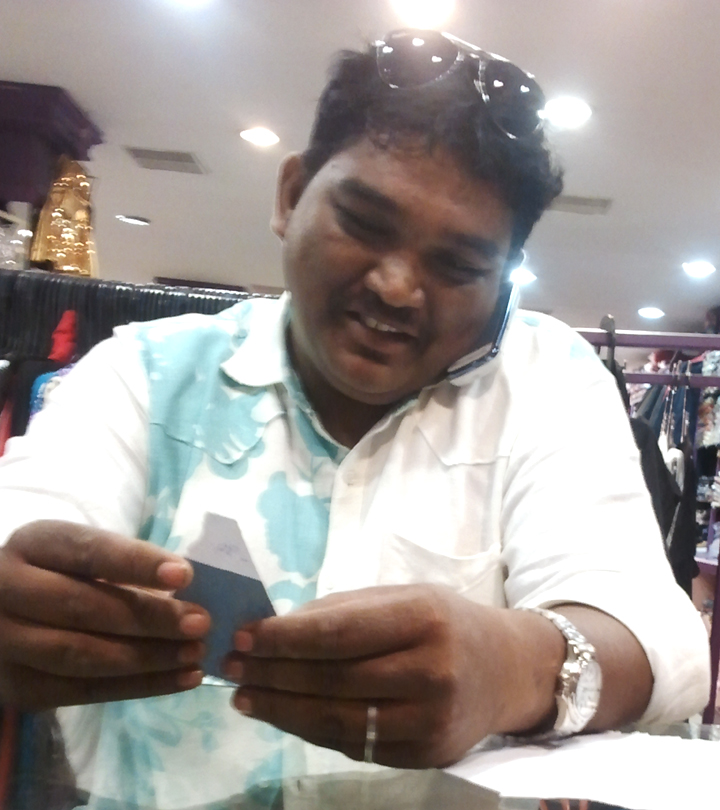 Asees Palakkad, Costumer in Malayalam films